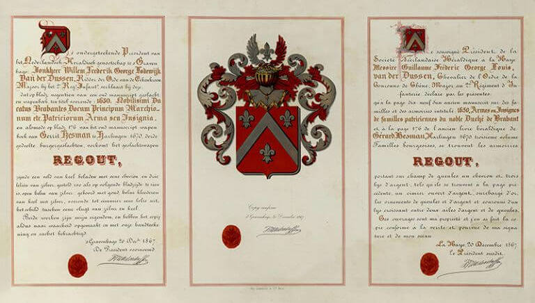 Print from an album titled Album dedié a mes amis et mes enfants that Petrus Regout, entrepreneur and "nouveau riche" in Maastricht, Netherlands, had put together around 1860 for family and friends to show off his wealth. It mainly contained prints of his real estate and some portraits, and here, his coat of arms. Throughout the 1860s various versions were printed.